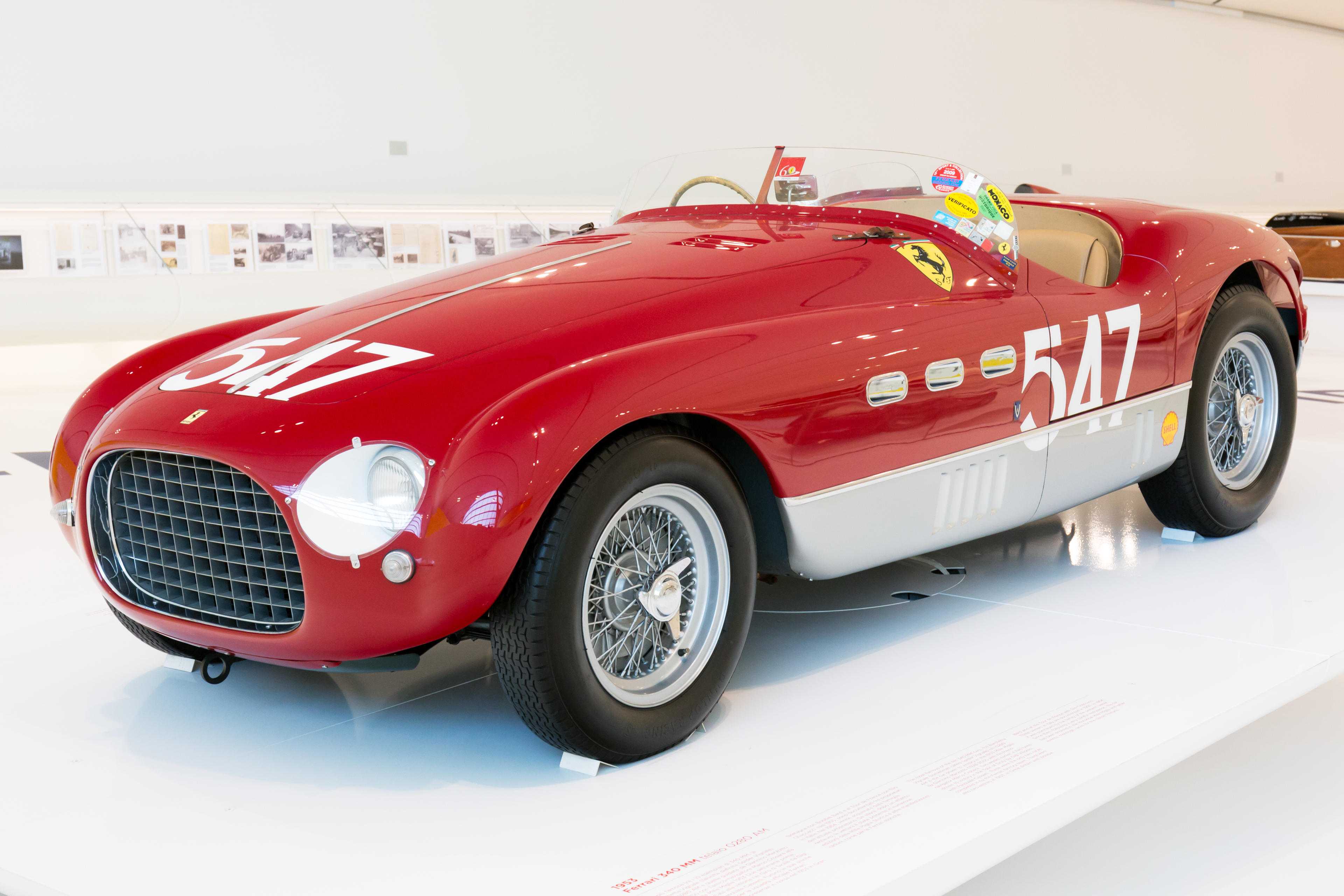 1953 Ferrari 340 MM. Chassis #0280AM.[1]